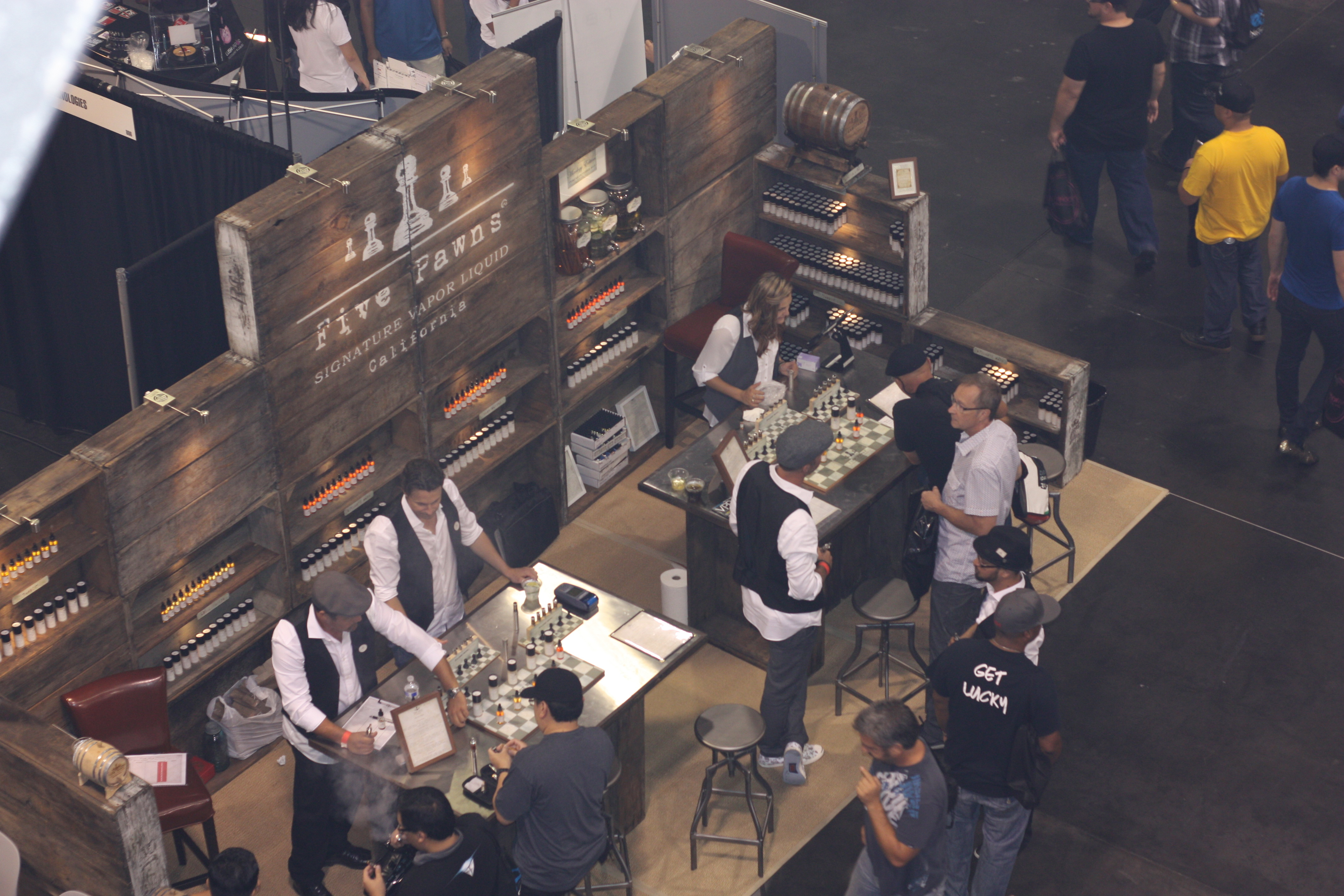 Five Pawns E-liquid booth. Read summary of the event